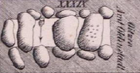 Megalithic tomb near Oetzen, Sprockhoff-No. 783